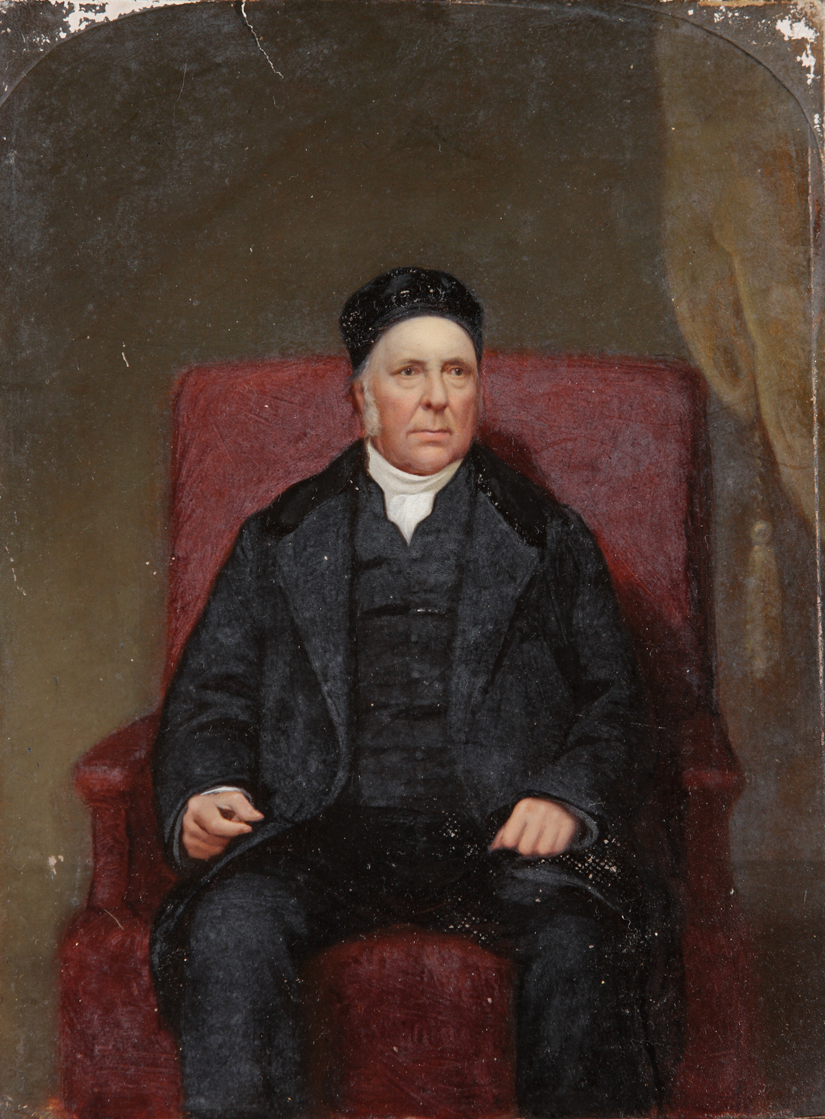 Portrait of William Miller Christy (1778–1858), English Quaker manufacturer and banker.